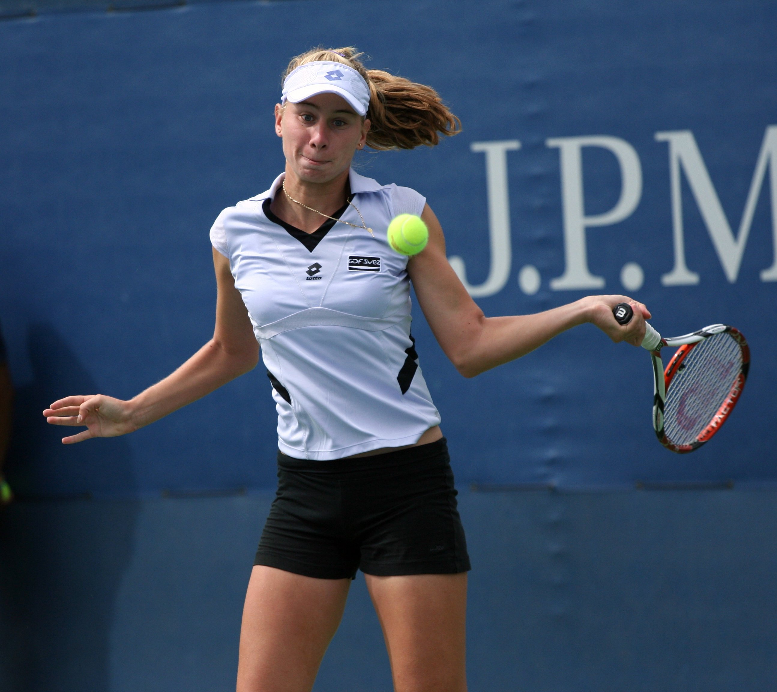 U.S. Open Juniors Thursday, Sept. 10, 2009